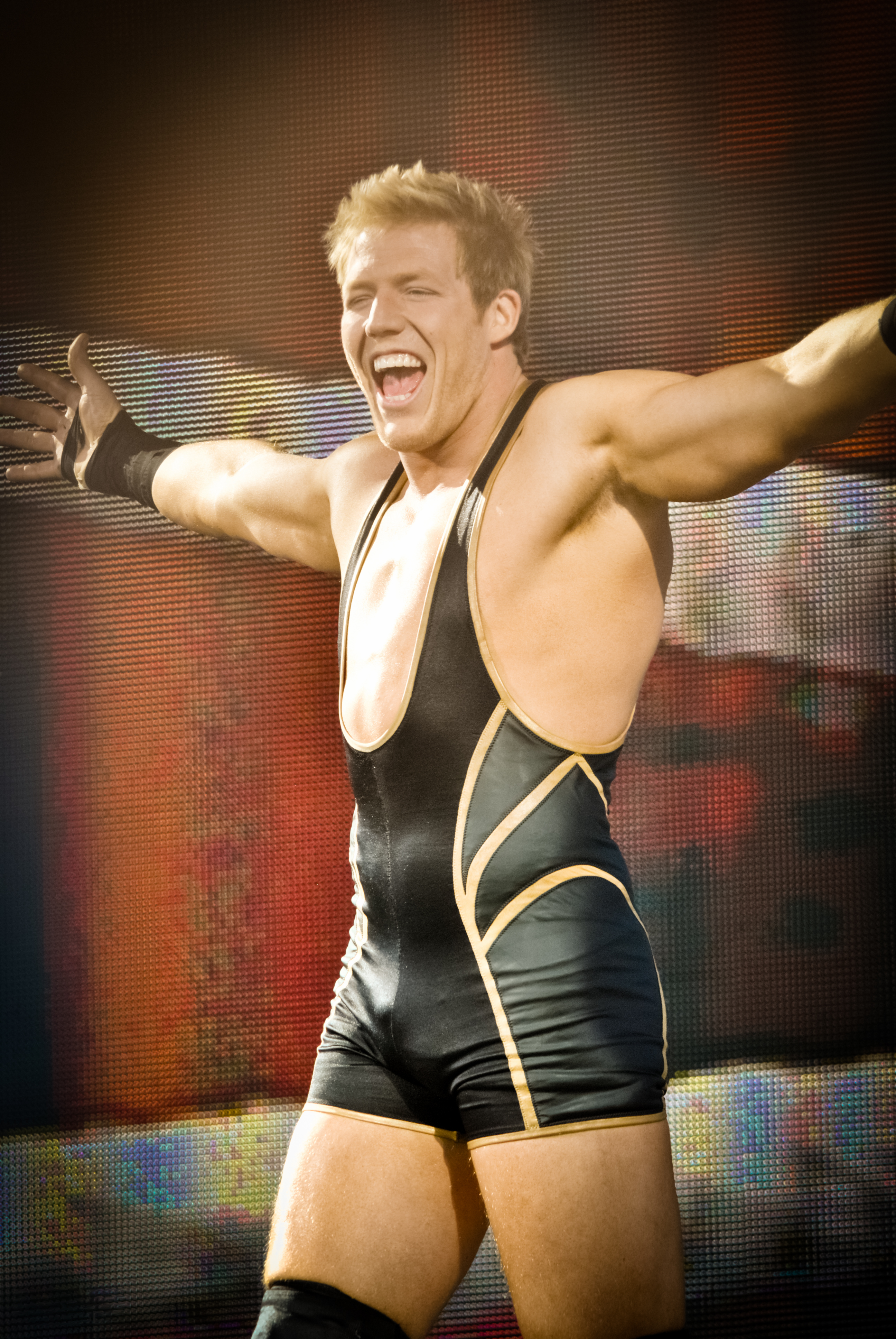 Jack Swagger at WWE's Tribute to the Troops show in Fort Hood, Texas on December 11, 2010.